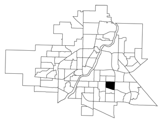 A map showing the location of the Brevoort Park neighbourhood in relation to the other neighbourhoods in Saskatoon.